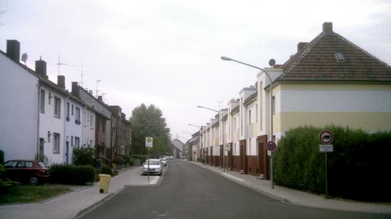 Robend, Viersen, Germany, seen from the street "Stadtwaldallee".